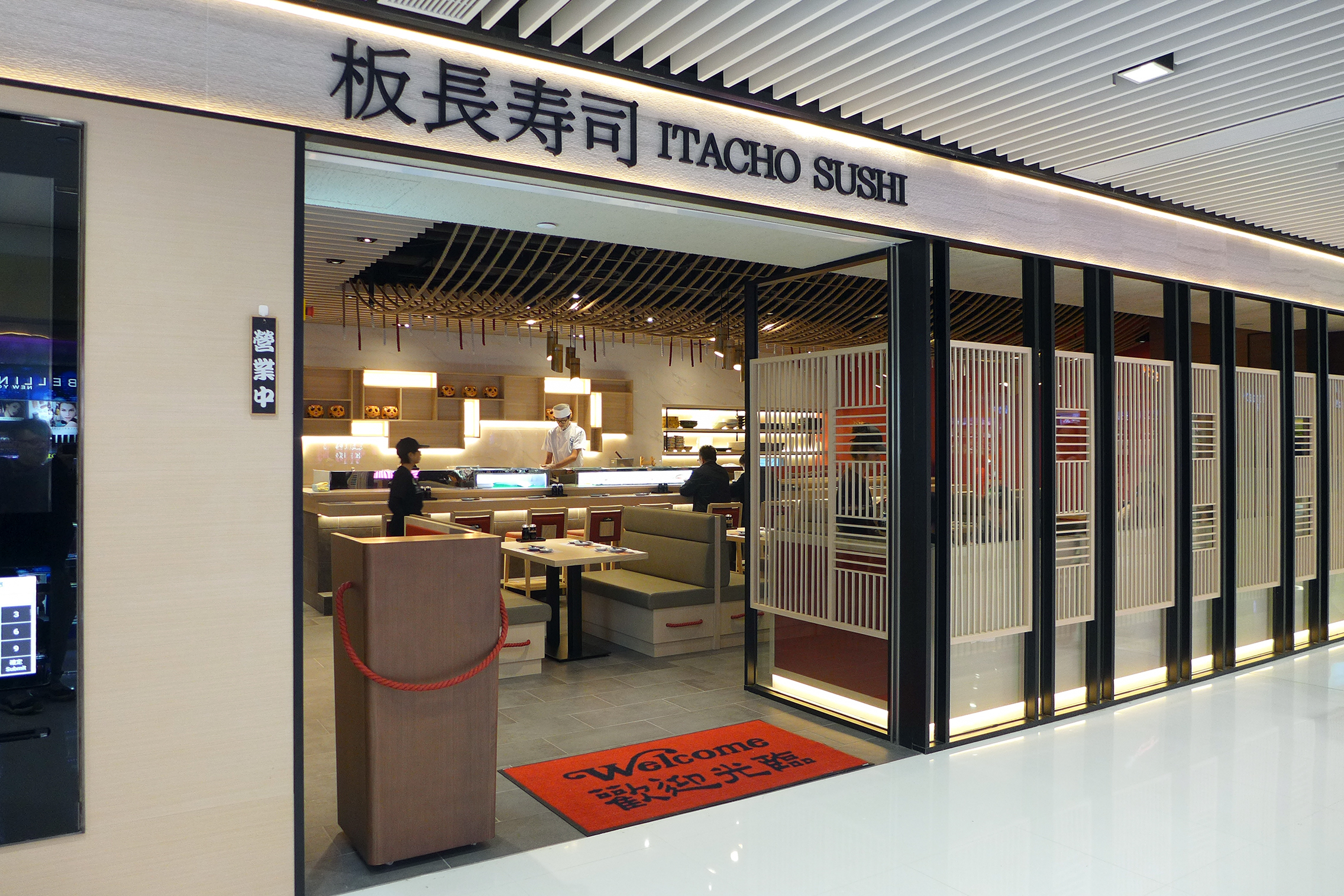 Itacho Sushi in Shatin Centre